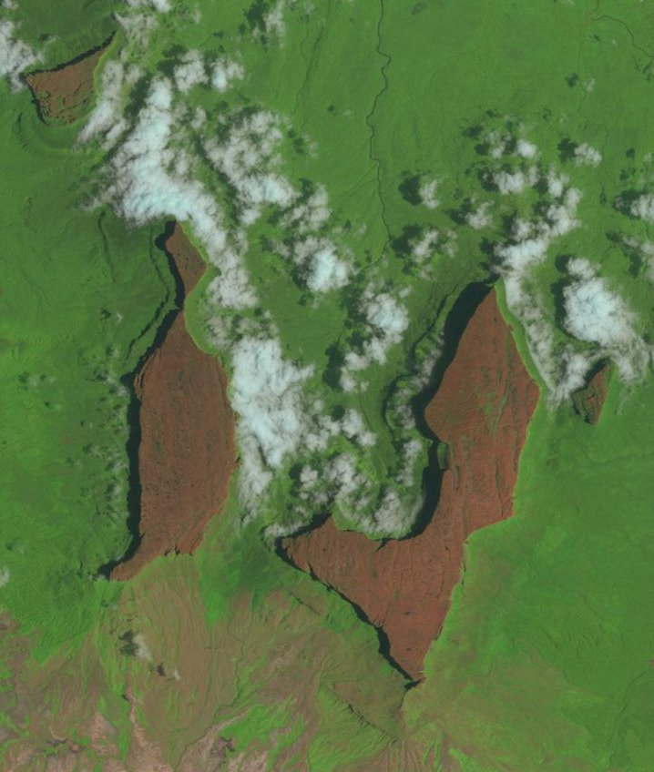 Satellite image language of Mount Roraima.